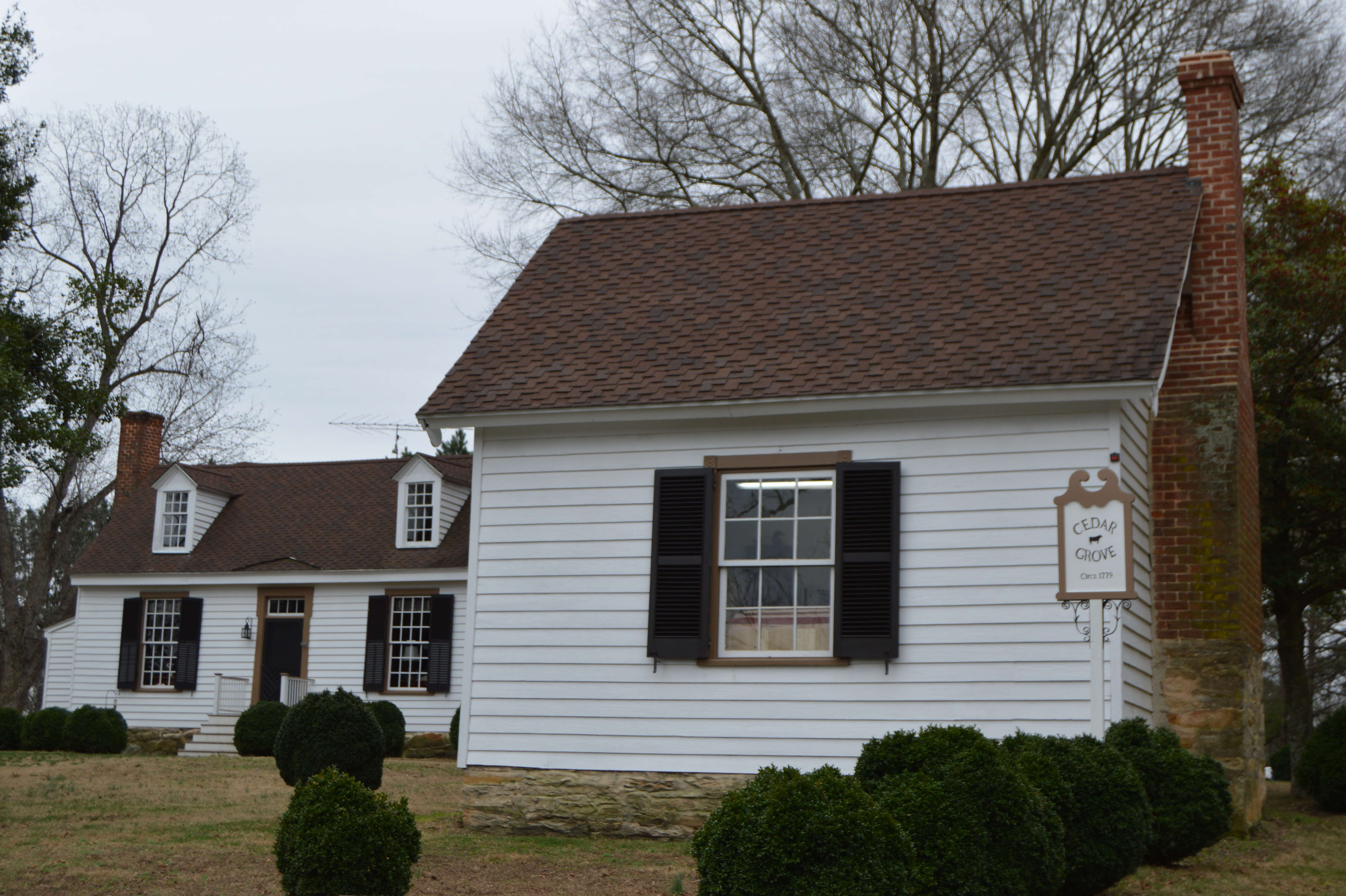 1770s farmhouse and 1850s outbuilding at the Cedar Grove complex, located at 1083 Blanes Mill Lane southwest of South Boston in Halifax County, Virginia, United States. The complex is listed on the National Register of Historic Places.